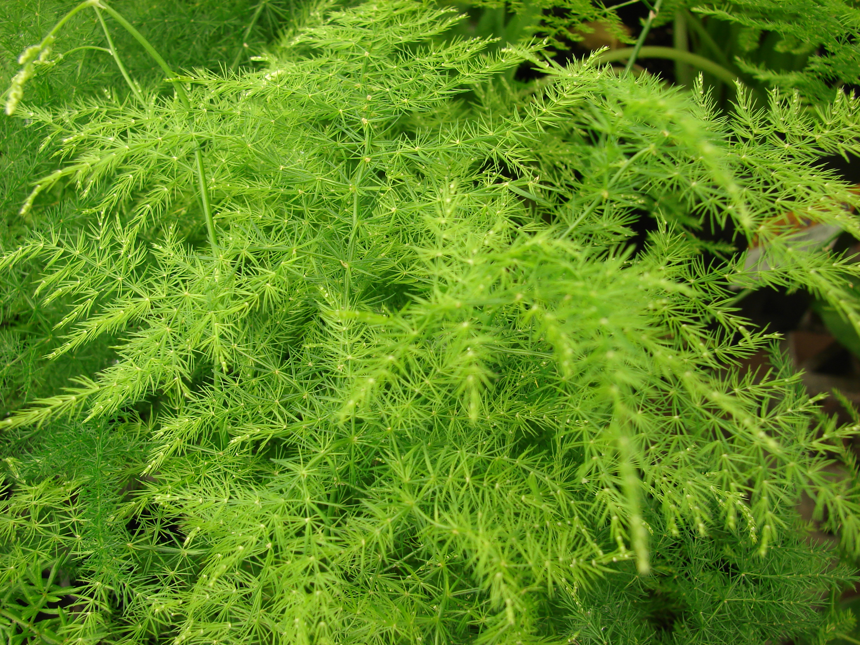 Asparagus setaceus (habit). Location: Maui, Walmart Kahului